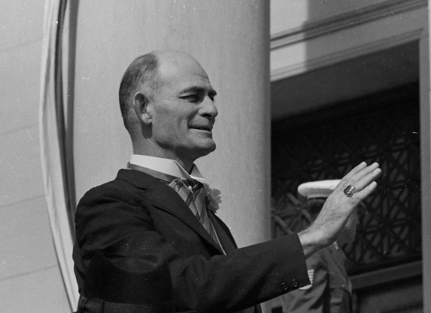 Collection: Moncrief Photograph Collection Call number: PI/1994.0005 System ID: 94660. Link to the catalog Inauguration of Governor Paul B. Johnson Jr., January 21, 1964. Paul B. Johnson Jr. at the State Capitol in Jackson (Miss.). Please see our profile page for information on ordering. Scanned as TIFF in 2005-03-30 by MDAH. Credit: Courtesy of the Mississippi Department of Archives and History